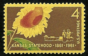 Kansas Statehood US postage stamp